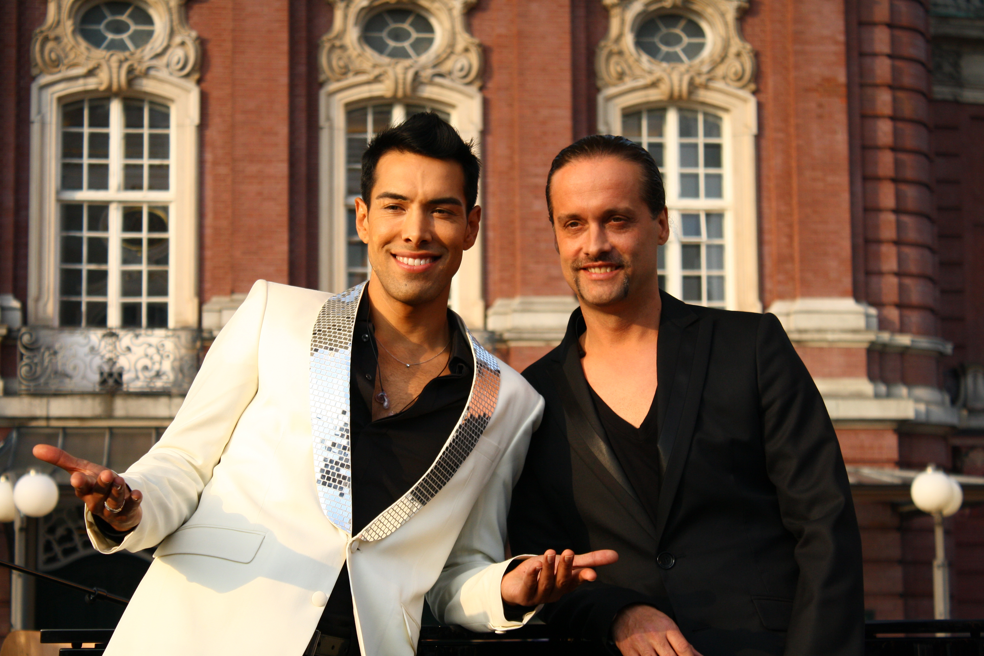 Alex Swings Oscar Sings! (Alex C. (right) and Oscar Loya) in Hamburg, Germany